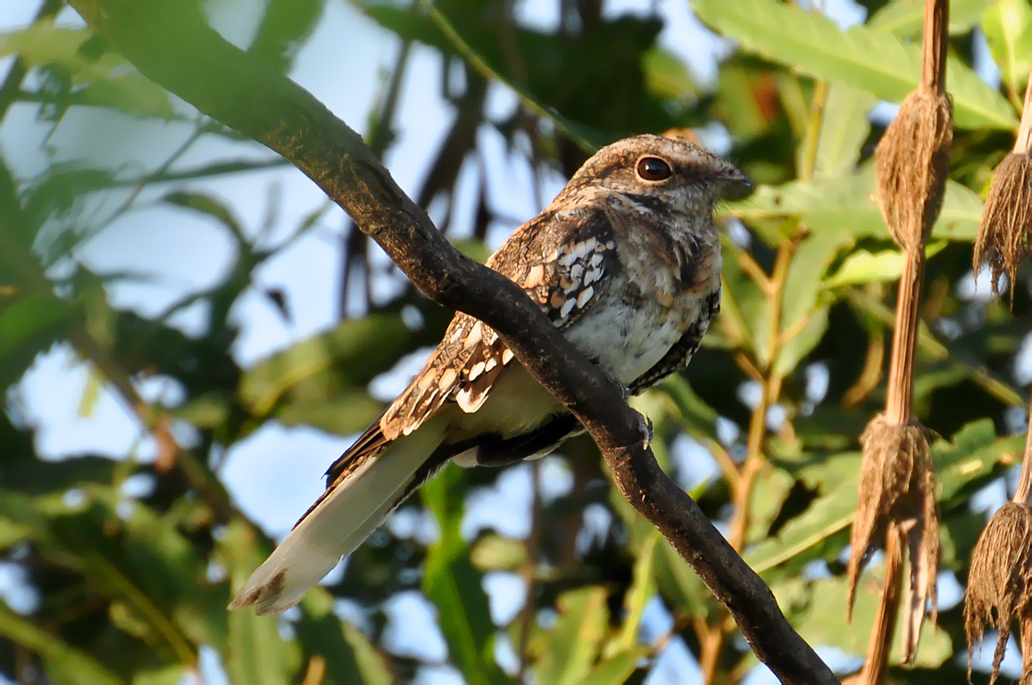 Hydropsalis climacocerca subsp. climacocerca male photographed in the Amazon, Brazil, in November 2010.